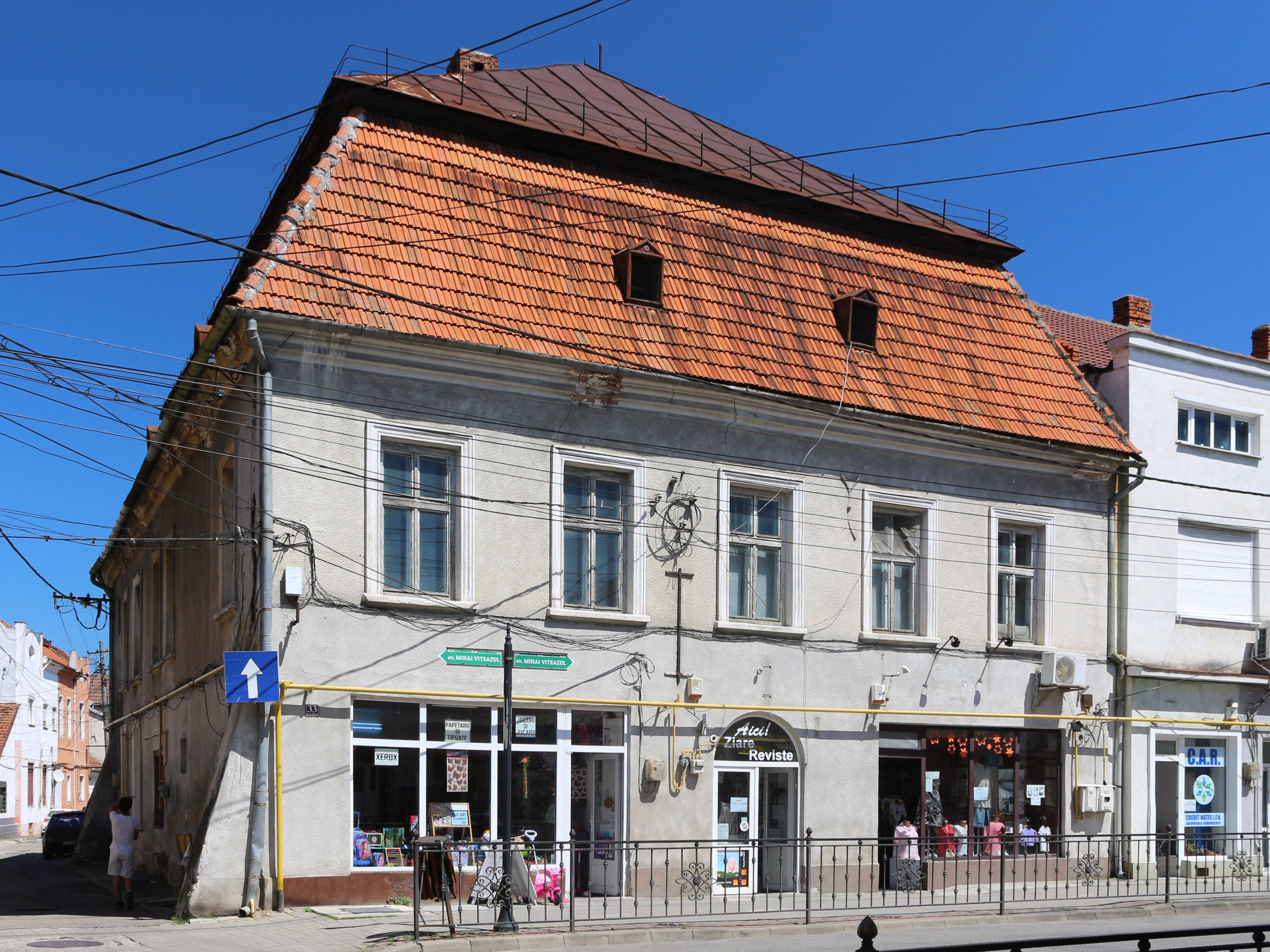 Old house, Caransebeș, Mihai Viteazul St., no. 33, built 18th century.